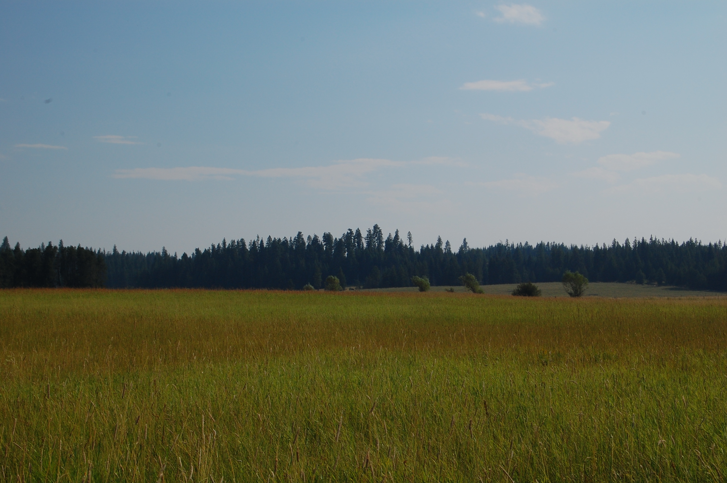 Along the Nez Perce National Historic Trail, Weippe Prairie, near Weippe, Idaho. US Forest Service photo, by Roger Peterson